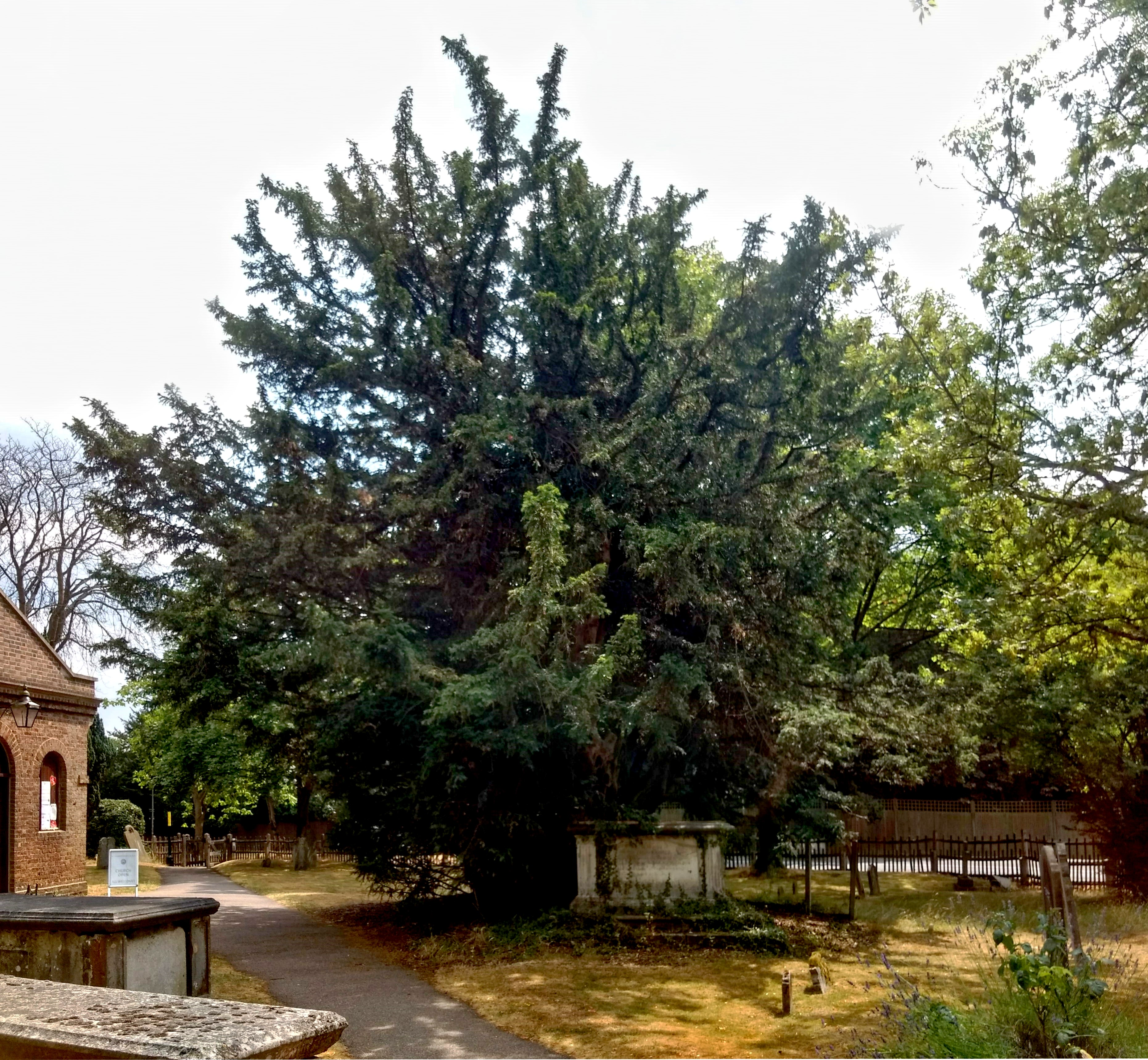 Totteridge Yew, St Andrew's church, Totteridge